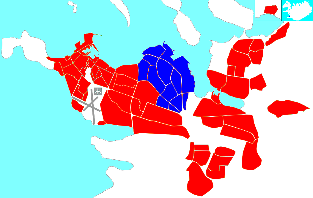 Locator map of the district Laugardalur (blue) within the municipality of Reykjavik (red).